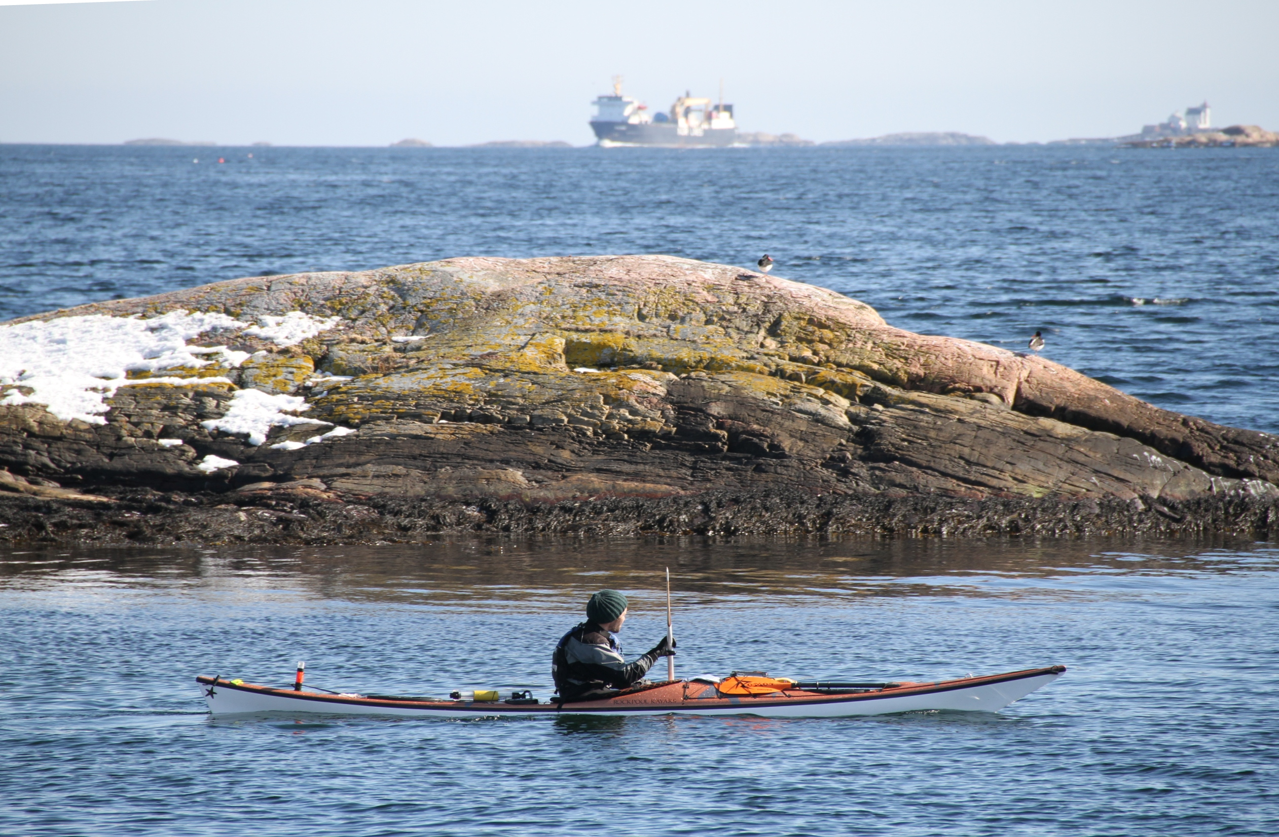 Kayaking in the coastal waters of Møvik, Kristiansand city, Norway.